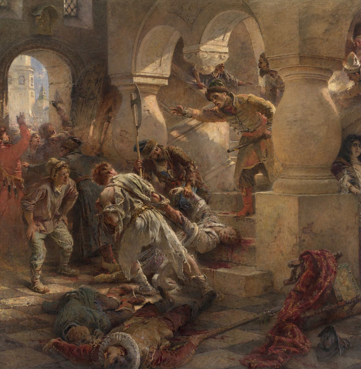 Konstantin Makovsky, The Murder of False Dmitry